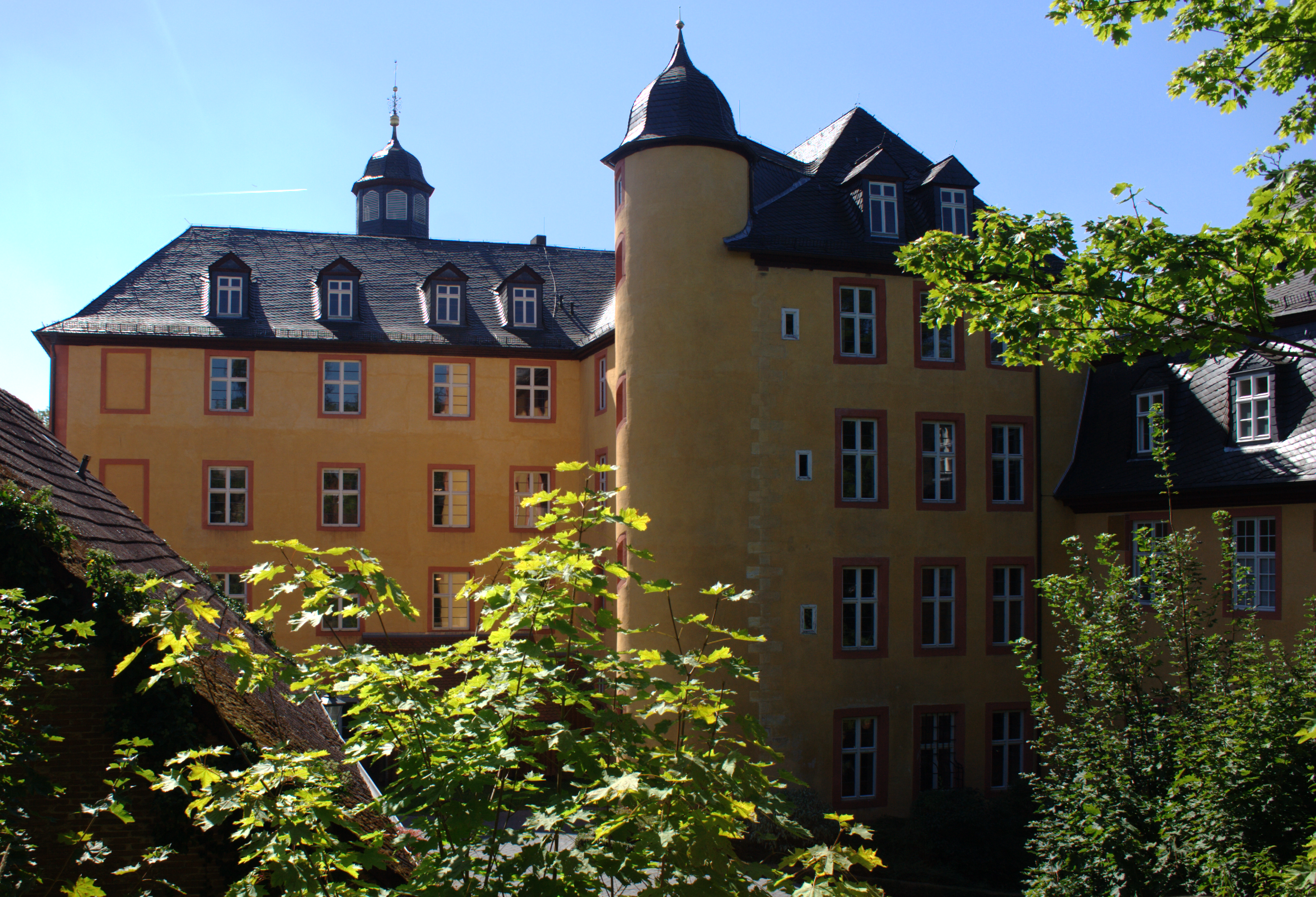 Main Building (rear) - Castle Gedern Schlossberg 7/ Hesse / GermanyThis is a photograph of an architectural monument.